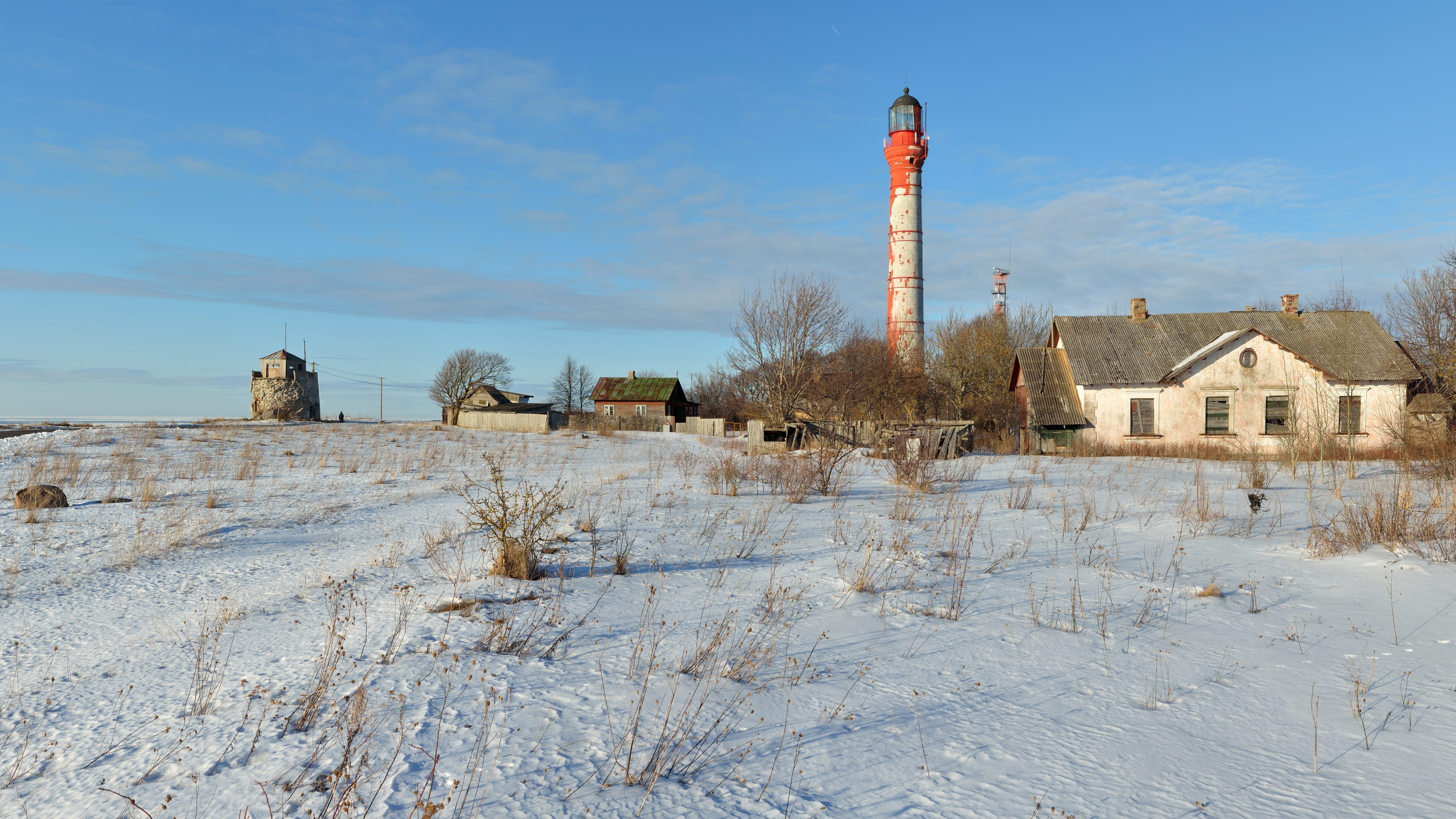 Old and new lighthouse on Pakri peninsula, Harju County, Estonia